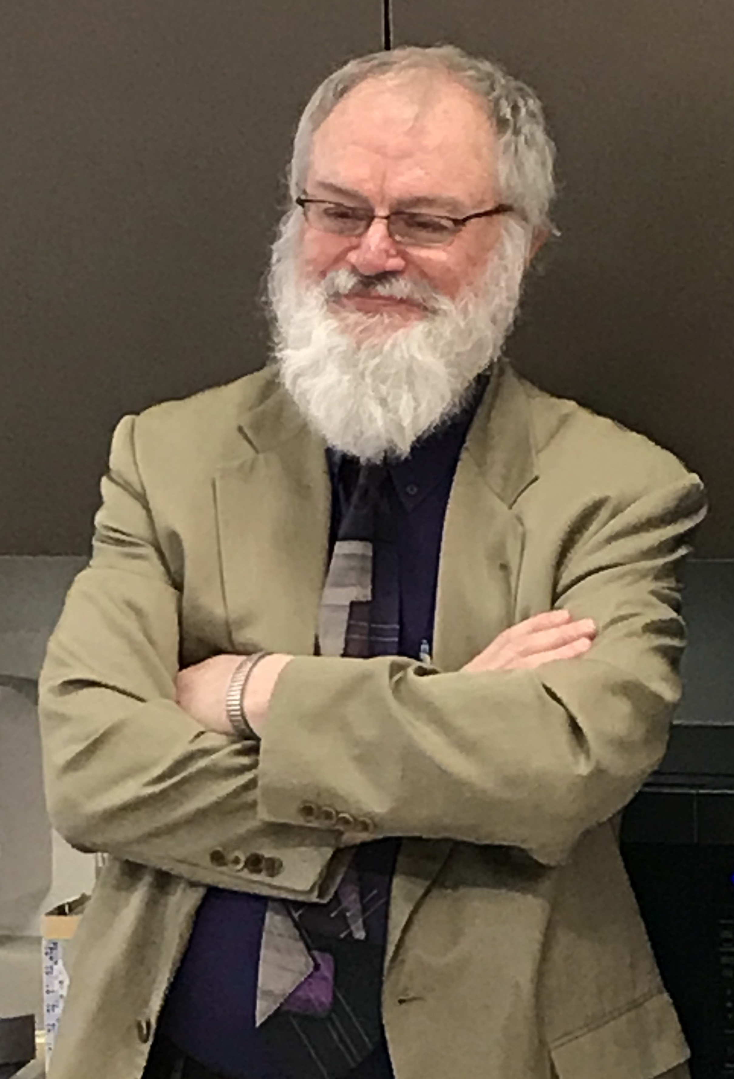 Michel RenePonchin Barnes, May, 2017